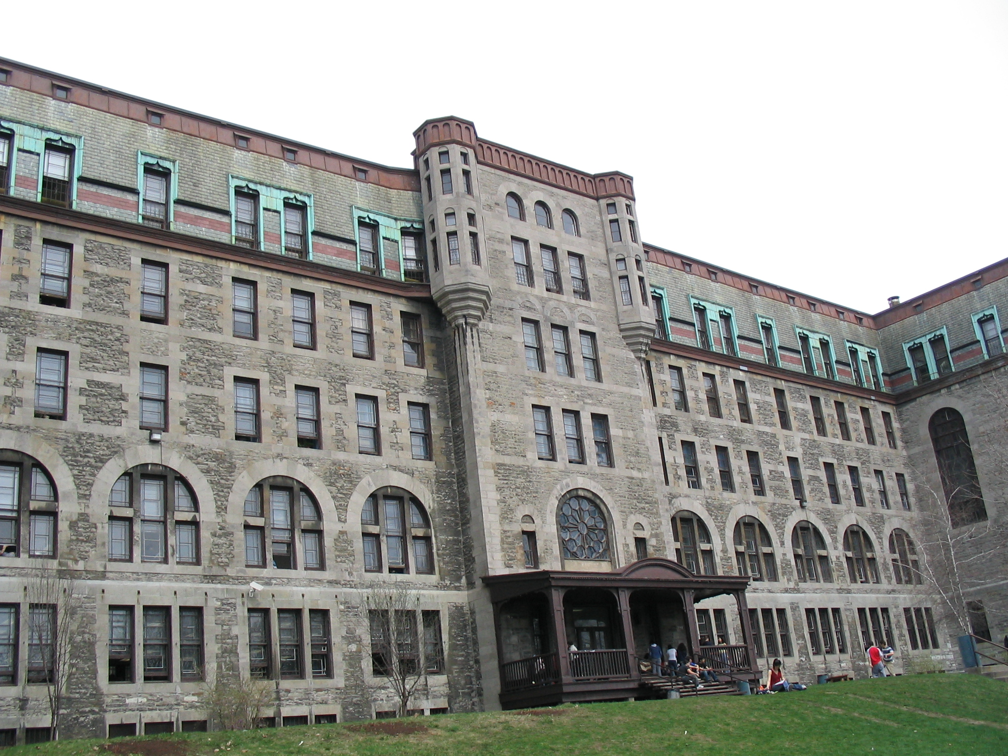 Marianopolis at its current Côte-des-Neiges location. Seen is the side of the building that faces the field on the slope of Mount Royal in Montreal.